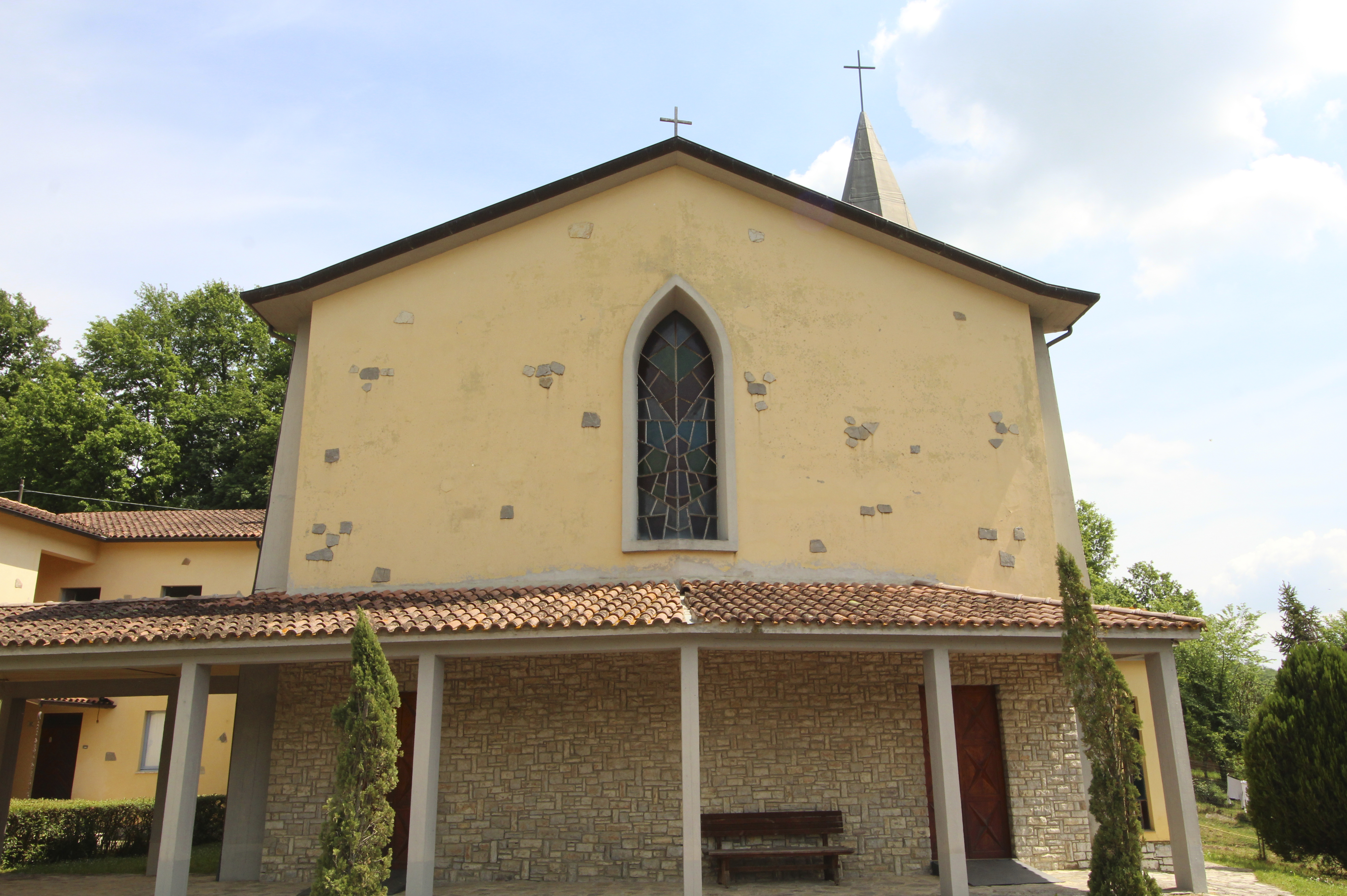 Church San Leone Magno (Leo I.), San Leo Bastia, hamlet of Città di Castello, Umbria, Italy